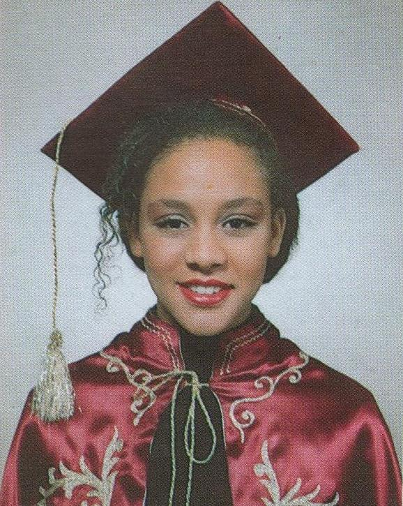 Defne Joy Foster graduation picture, İzmir Fatih College, 1992 class.